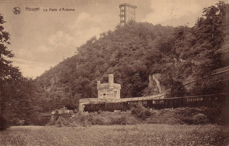 Postkaart station Chateau d'ardenne